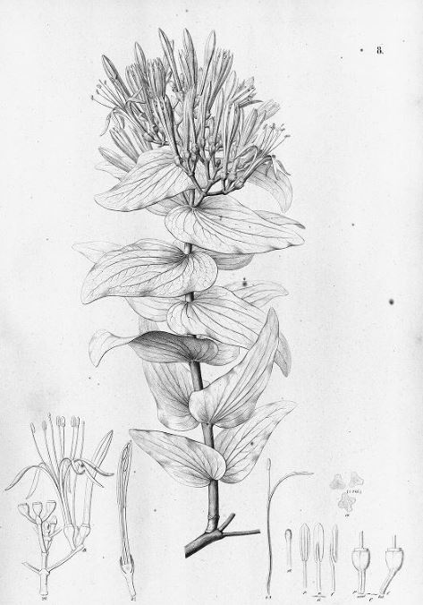 From Flora Brasiliensis, Martius, Tab 8 Psittacanthus cordatus